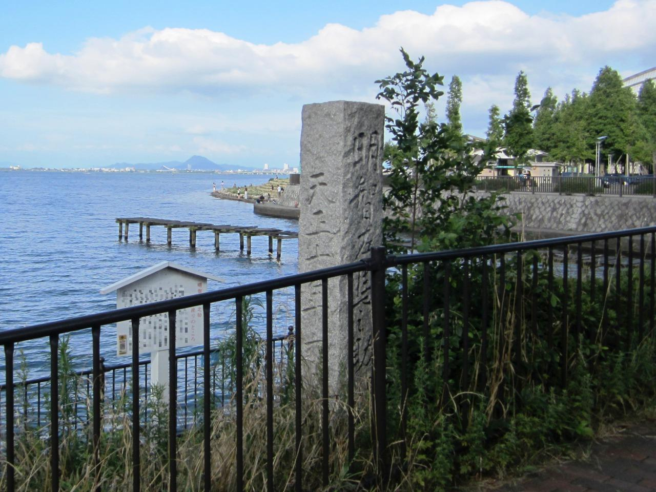 The monument of Akechi Samanosuke's crossing of Lake Biwa after Akechi Mitsuhide's death in the battle of Yamazaki.